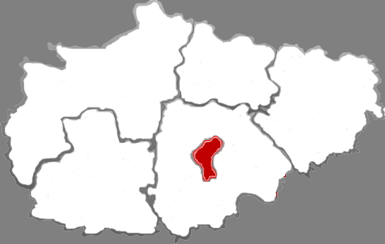 Location of Chengqu district Jincheng City, China